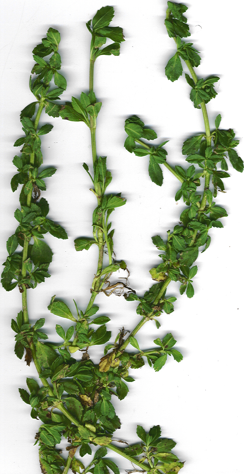 Phyla nodiflora (plant). Location: Maui, Kanaha Beach Park